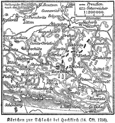 Historical map of the Battle of Hochkirch near Hochkirch in Saxony (October 14, 1758).